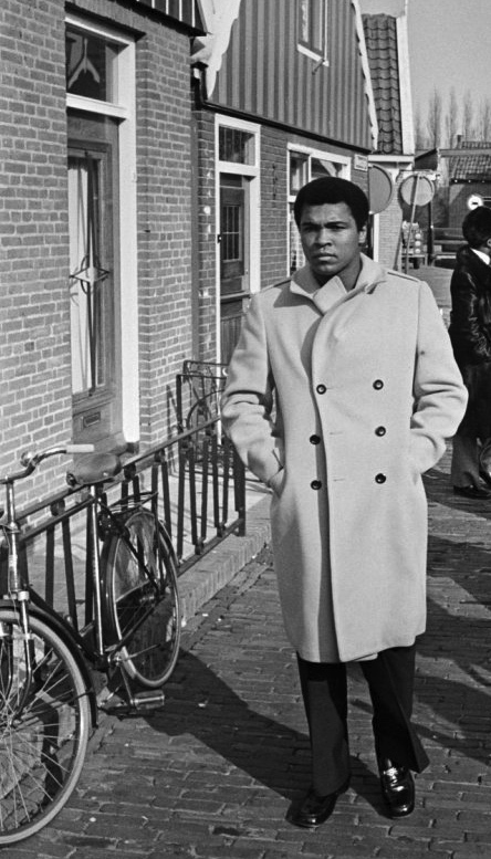 Muhammad Ali passing a bicycle in a visit to Volendam.